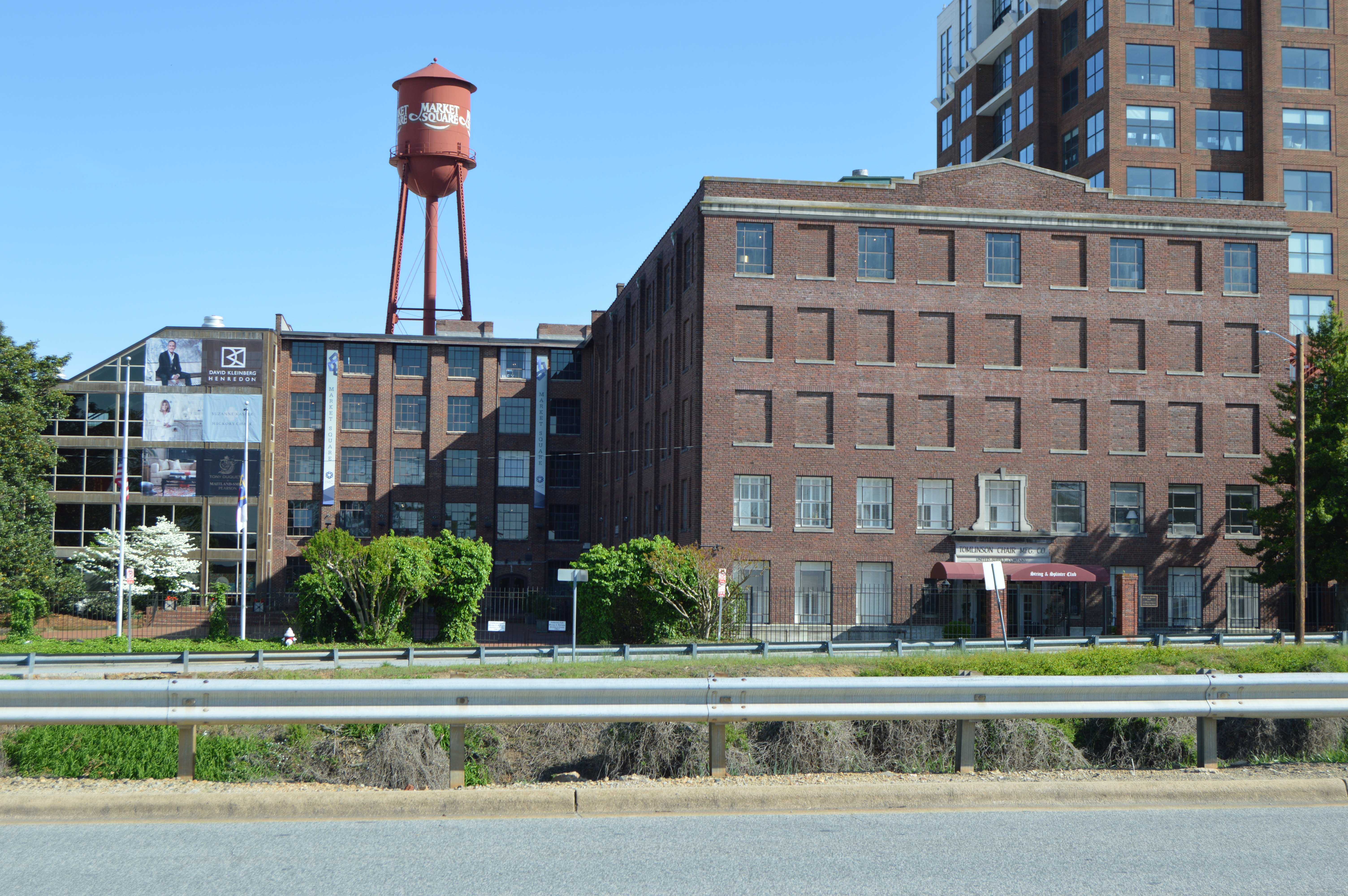 Street view of part of the Tomlinson Chair Manufacturing Company Complex, located in the 300 block of W. High Street in High Point, North Carolina, United States. The complex is listed on the National Register of Historic Places.